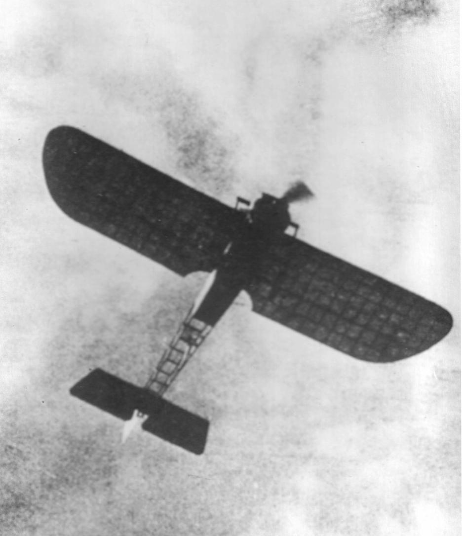 Bleriot XI 'Britannia', photographed in 1913 - the first New Zealand Military aircraft. Image free of copyright in source; "The History of New Zealand Aviation" - R MacPherson & R Ewing, NZ copyright law applied (copyright extinguished for photograph 50 years from death of artist). As always, licence is not entirely right because drop down options are completely inappropriate to non-US laws, and it doesn't matter where the server is.